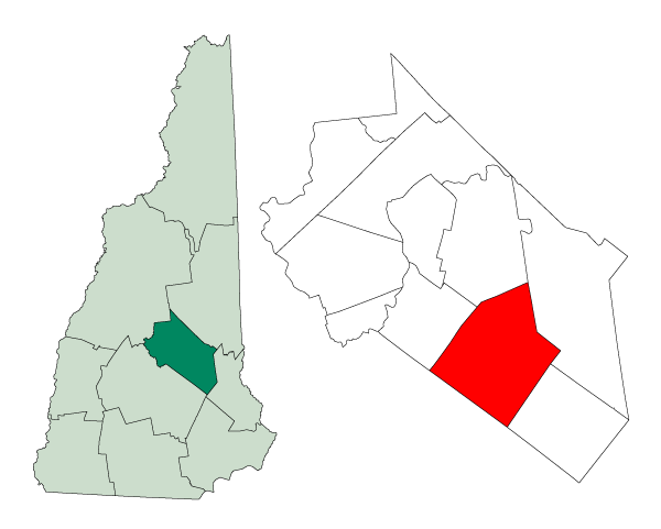 Map of a municipality in Belknap County, New Hampshire